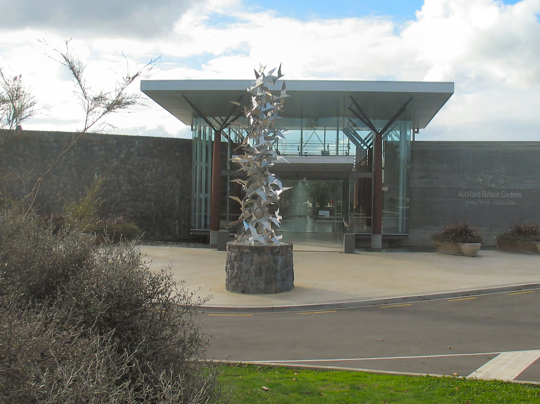 Auckland Botanic Gardens, New Zealand. Photo taken 15 April 2006